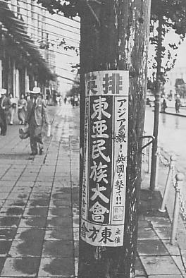 Anti-Britain poster by Tohokai